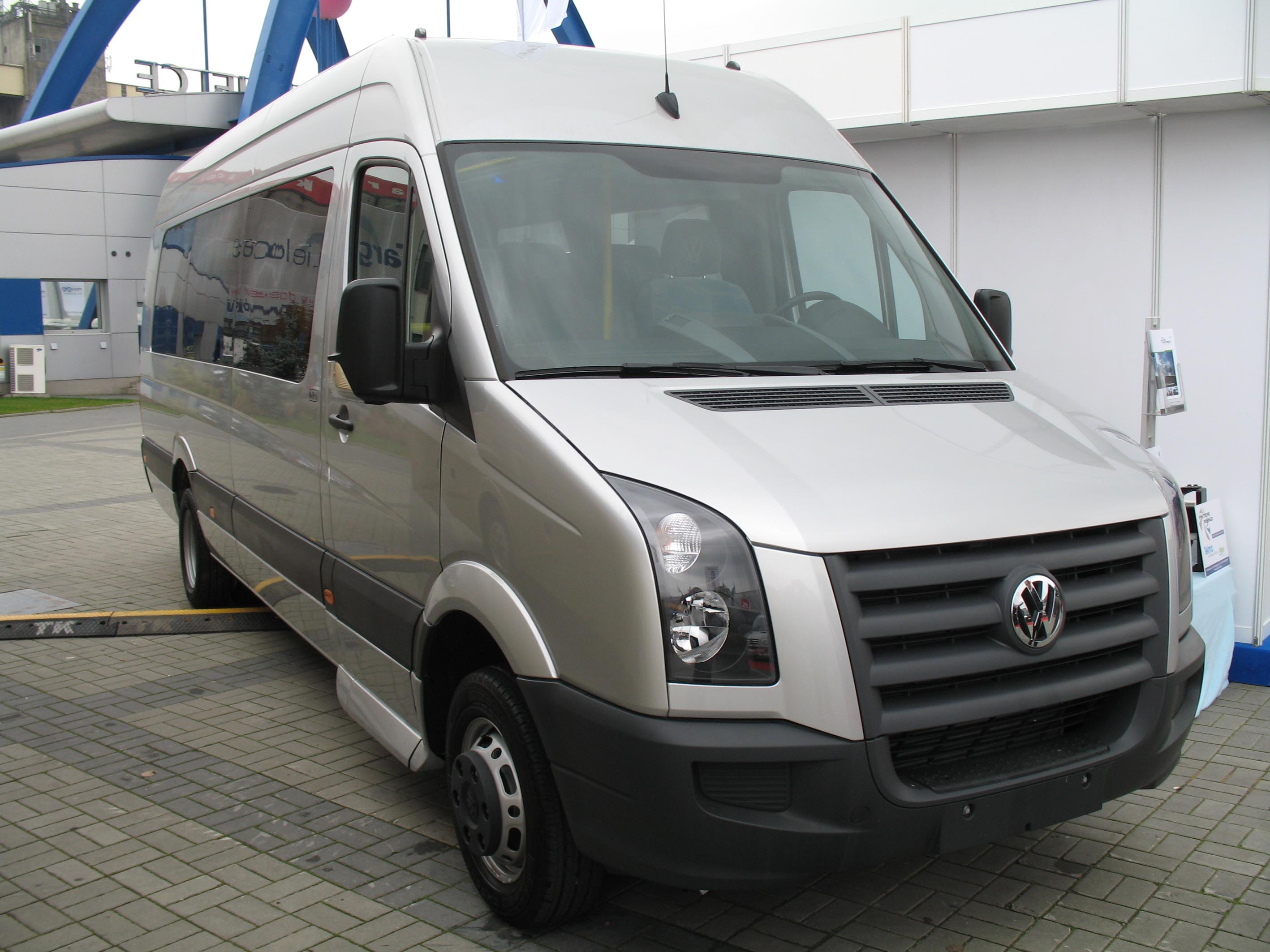 Automet Volkswagen Crafter TDI minibus in Kielce, Poland. Built 2008. Transexpo 2008.